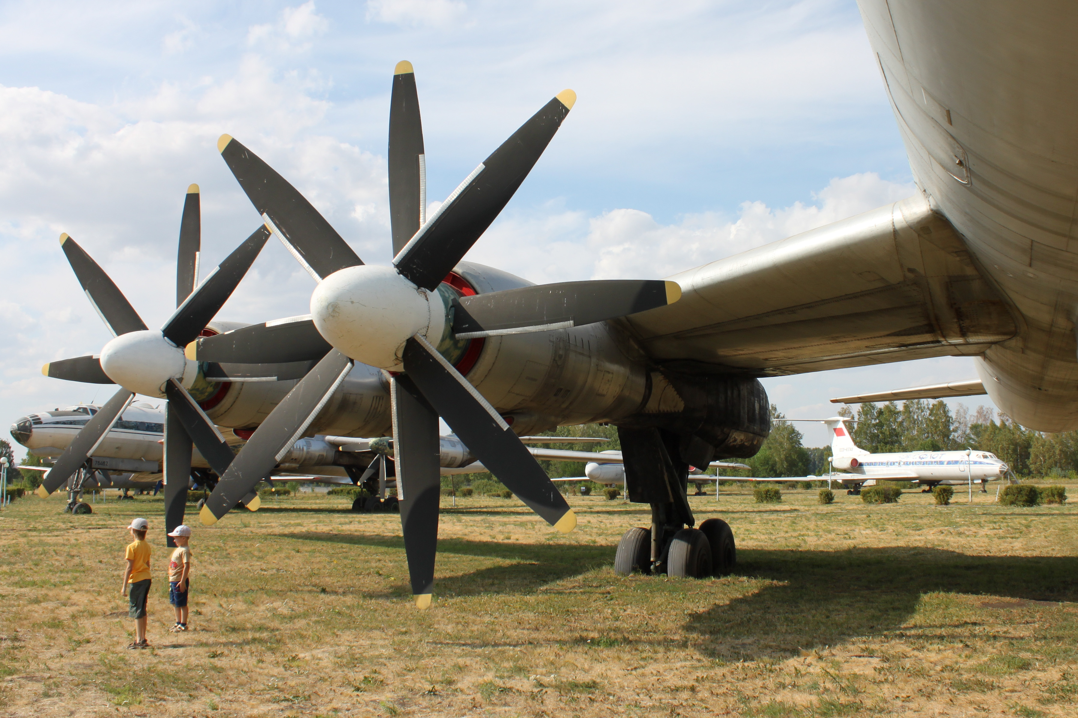 Engines of a Tupolev Tu-114 in the Ulyanovsk Aircraft Museum.